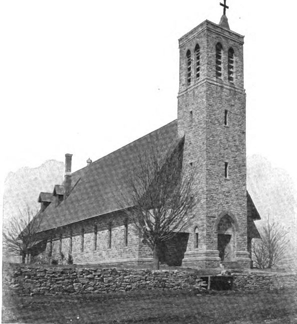 Old Hobart Church, Oneida, Wisconsin.